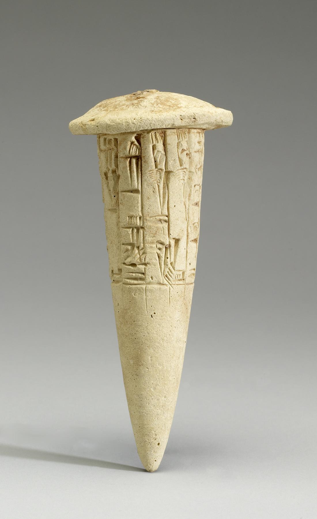 Clay nails such as this one inscribed with the name of King Gudea of Lagash were embedded in the upper parts of walls, sometimes with the head protruding. They may have developed from the custom of hammering a peg into a wall to signal ownership. This example bears a dedication to a deity and would have symbolically marked a temple as divine property.